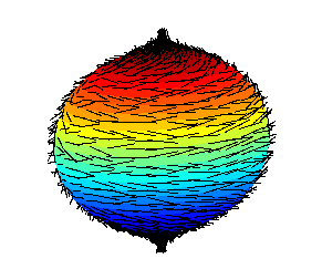 A failed attempt to comb a hairy ball flat. (I, anonymous author of this work, claim no author's rights.)